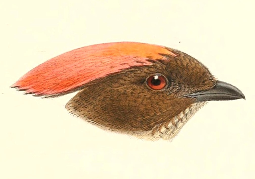 « Amblyornis subalaris » = Amblyornis subalaris (Streaked Bowerbird)